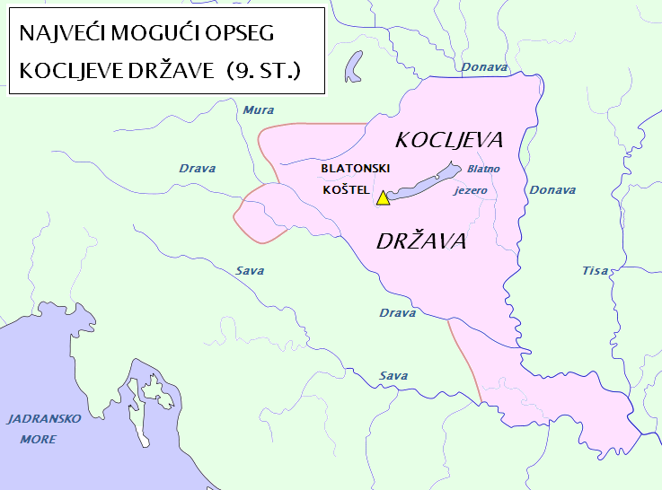 Lower Pannonia (Spodnja Panonija) during the reign of Kocelj (9th century); For approximate borders look at Inzko Valentin (1978): Zgodovina Slovencev do leta 1918. Mohorjeva založba, Celovec, page: 34; Čepič Zdenko et al. (1979): Zgodovina Slovencev. Cankarjeva založba, Ljubljana 1979, page: 127, 133; Peršič Janez et al. (1983): Stare kulture. Mladinska knjiga, Ljubljana, page: 144; [1]; [2].